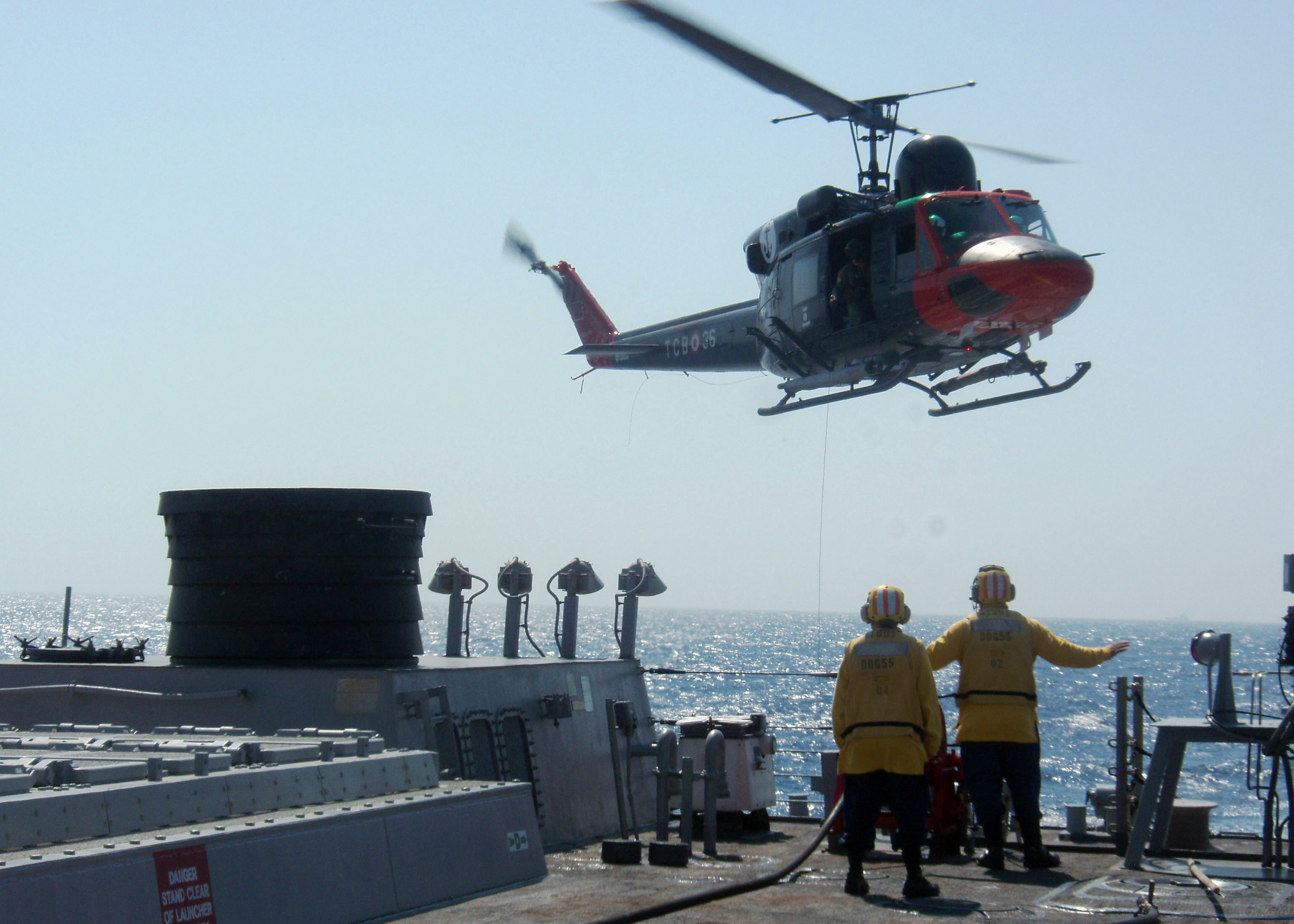 MEDITERRANEAN OCEAN (Aug. 19, 2009) Sailors assigned to the guided missile destroyer USS Stout (DDG 55) direct a Turkish helicopter during a vertical replenishment for exercise Reliant Mermaid 2009. The annual exercise between Israeli, Turkish and U.S. forces are based on scripted humanitarian search and rescue scenarios and designed to enhance maritime interoperability between participating nations. (U.S. Navy photo by Lt.j.g. Nate Curtis/Released)